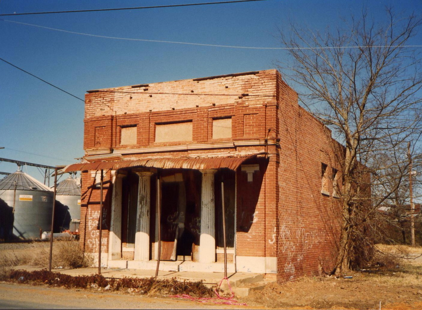 Winchester, Arkansas. Vacant building.